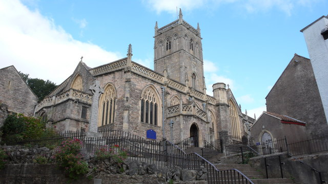 St John the Baptist's parish church, Axbridge, Somerset, seen from the southwest from the foot of the church steps